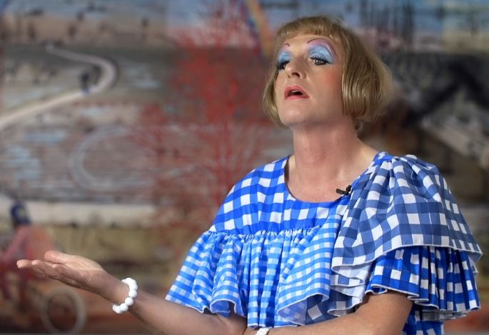 Grayson Perry introducing his exhibition 'The Most Popular Art Exhibition Ever!', at Arnolfini, Bristol.